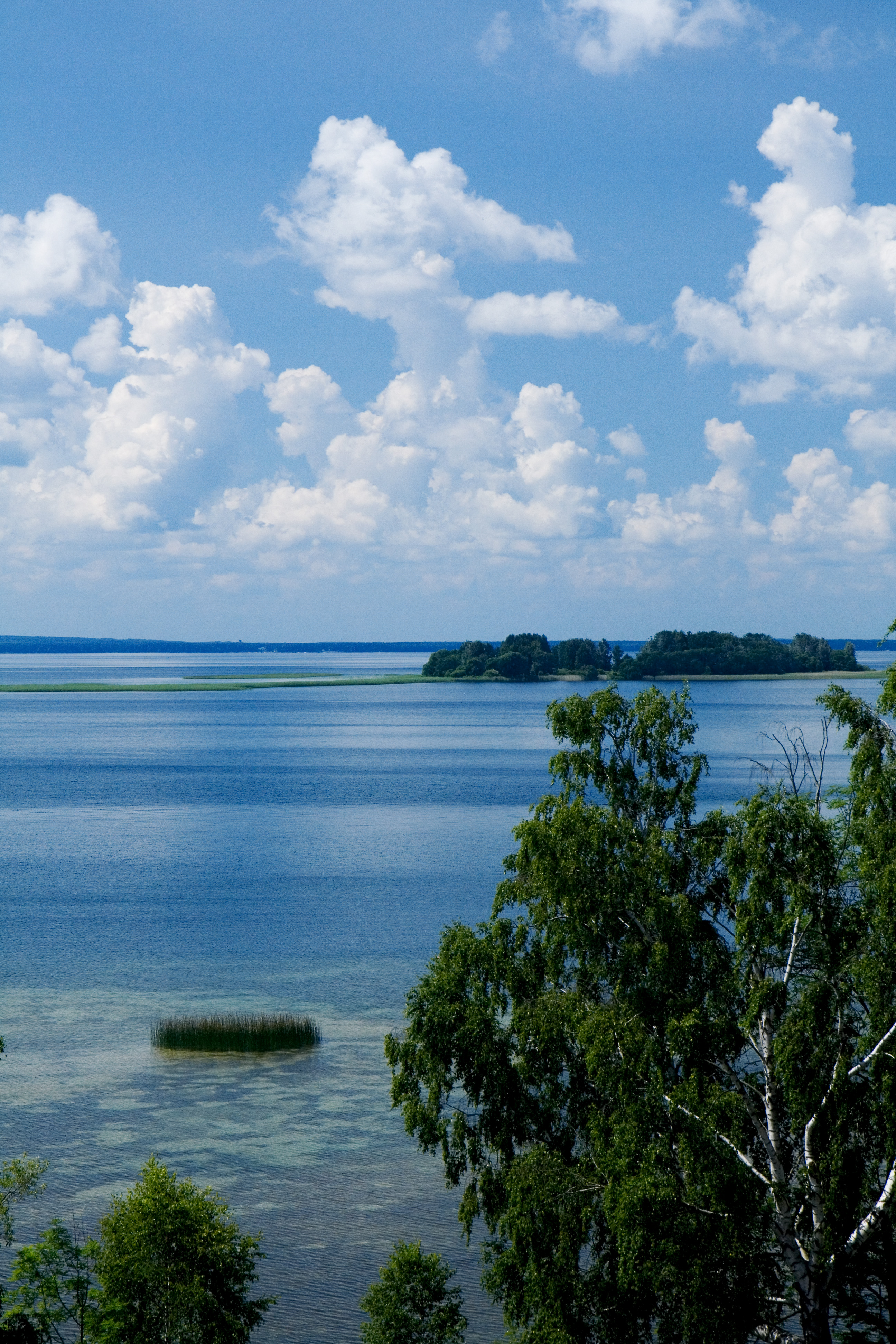 Lake Narach (Narač), Belarus. Беларуская (тарашкевіца): Возера Нарач, Беларусь.